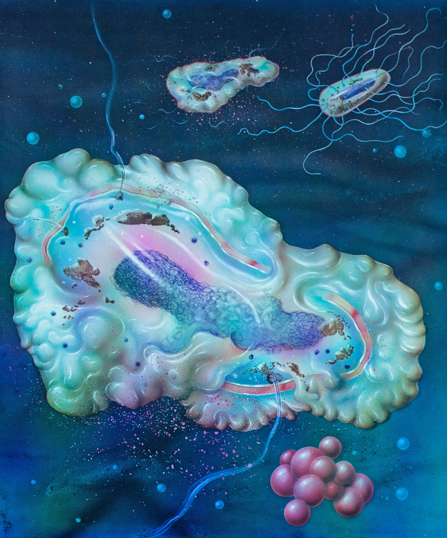 Scientific illustration: Effect of penicillin on the coli bacteria.